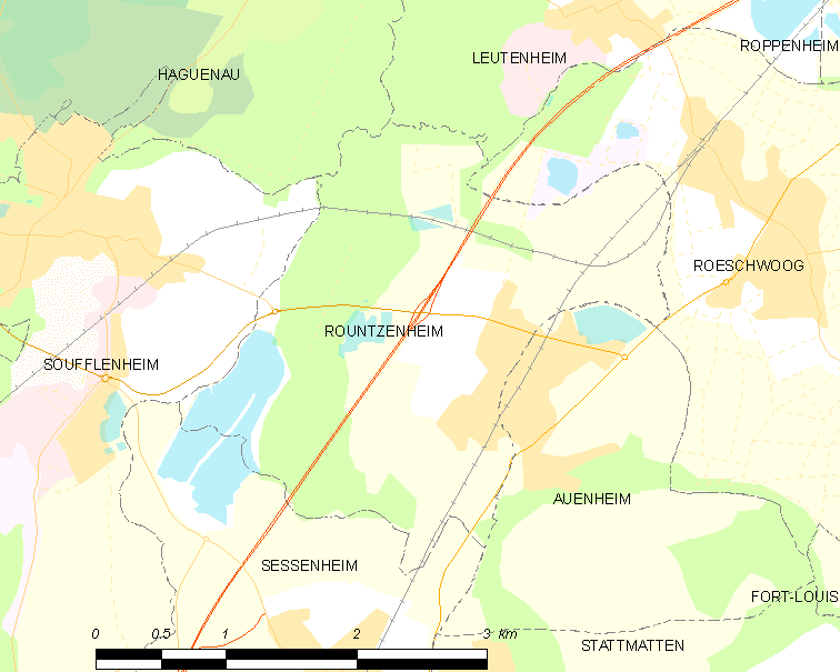 Map of French municipality